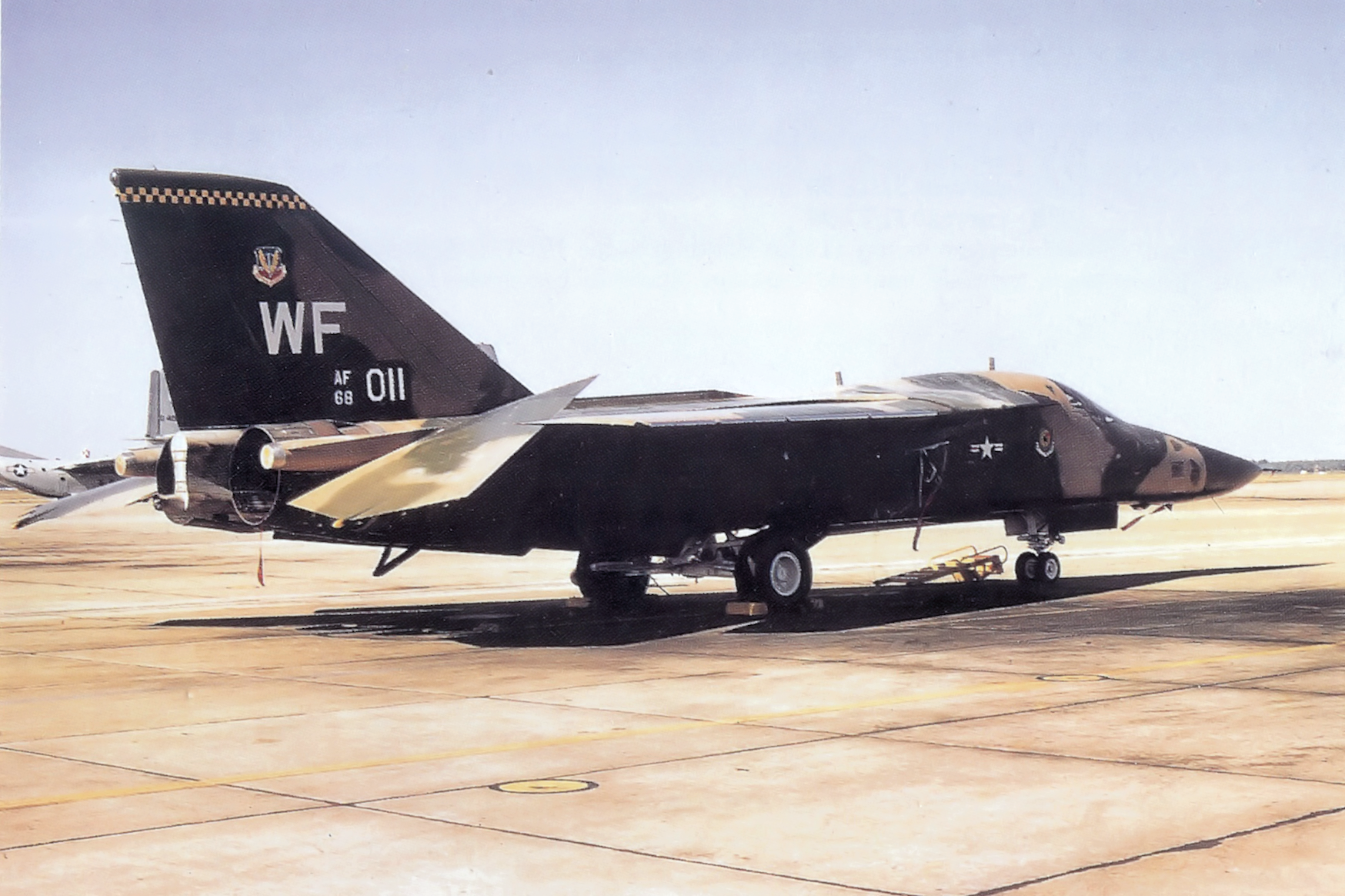 422d Fighter Weapons Squadron General Dynamics F-111E 68-0011. Aircraft now mounted on a pole at RAF Lakenheath, England for static display